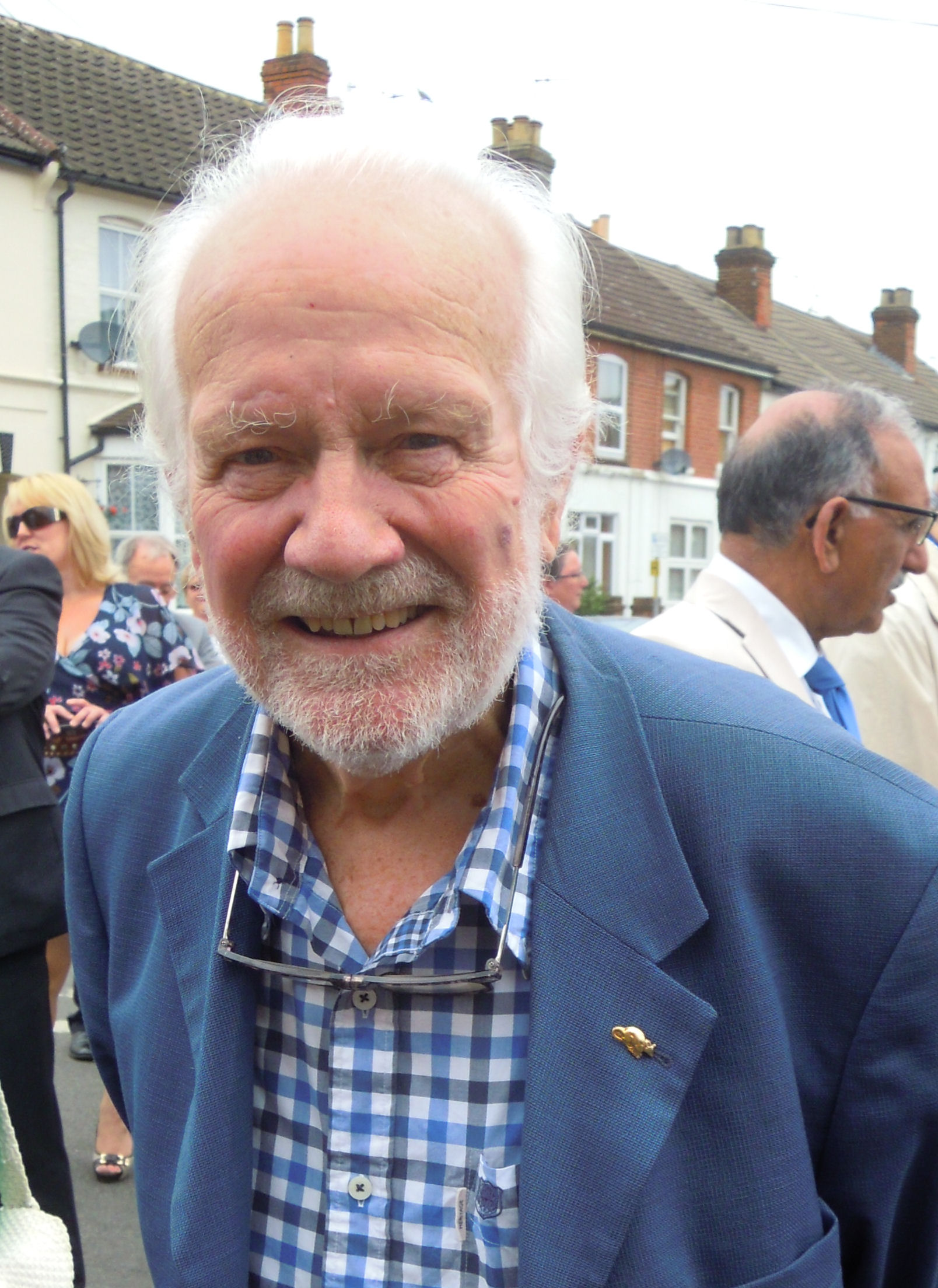 Chas McDevitt at the unveiling of an Aldershot Civic Society blue plaque for Arthur English at 22 Lysons Road in Aldershot in Hampshire